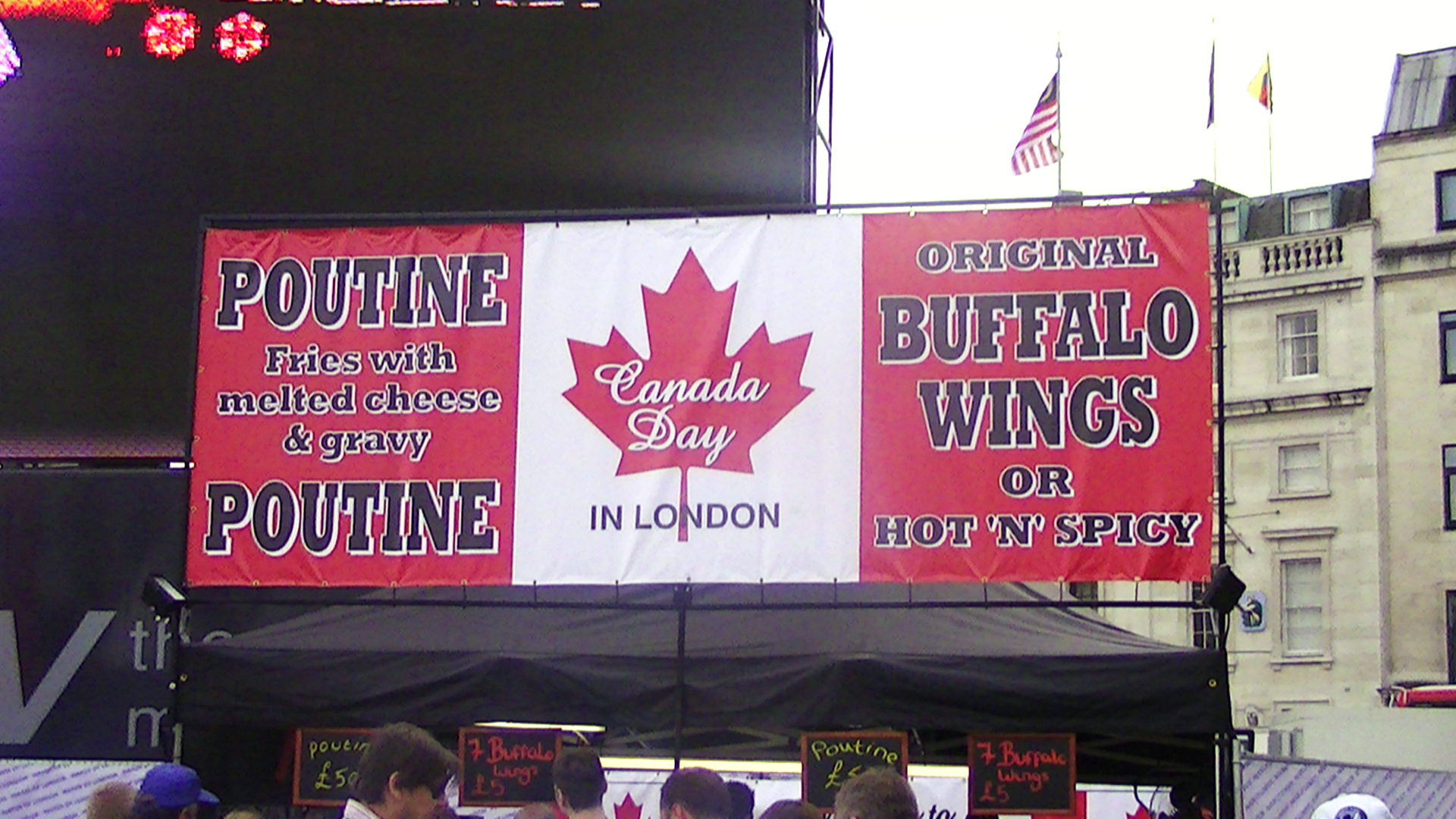 Poutine stand in Trafalgar Square, Canada Day, July 1, 2011